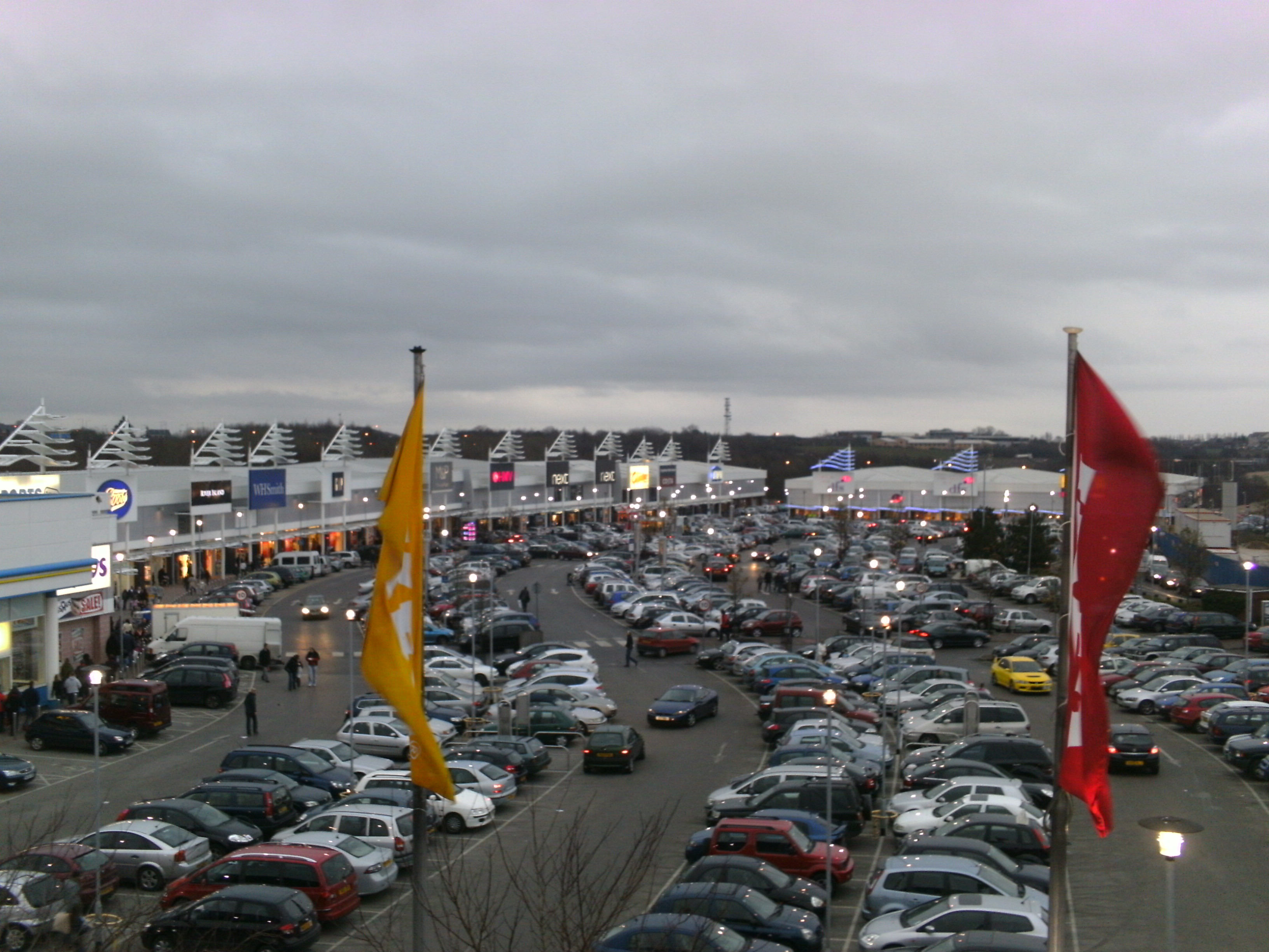 Birstall Retail Park, Birstall, Leeds, UK